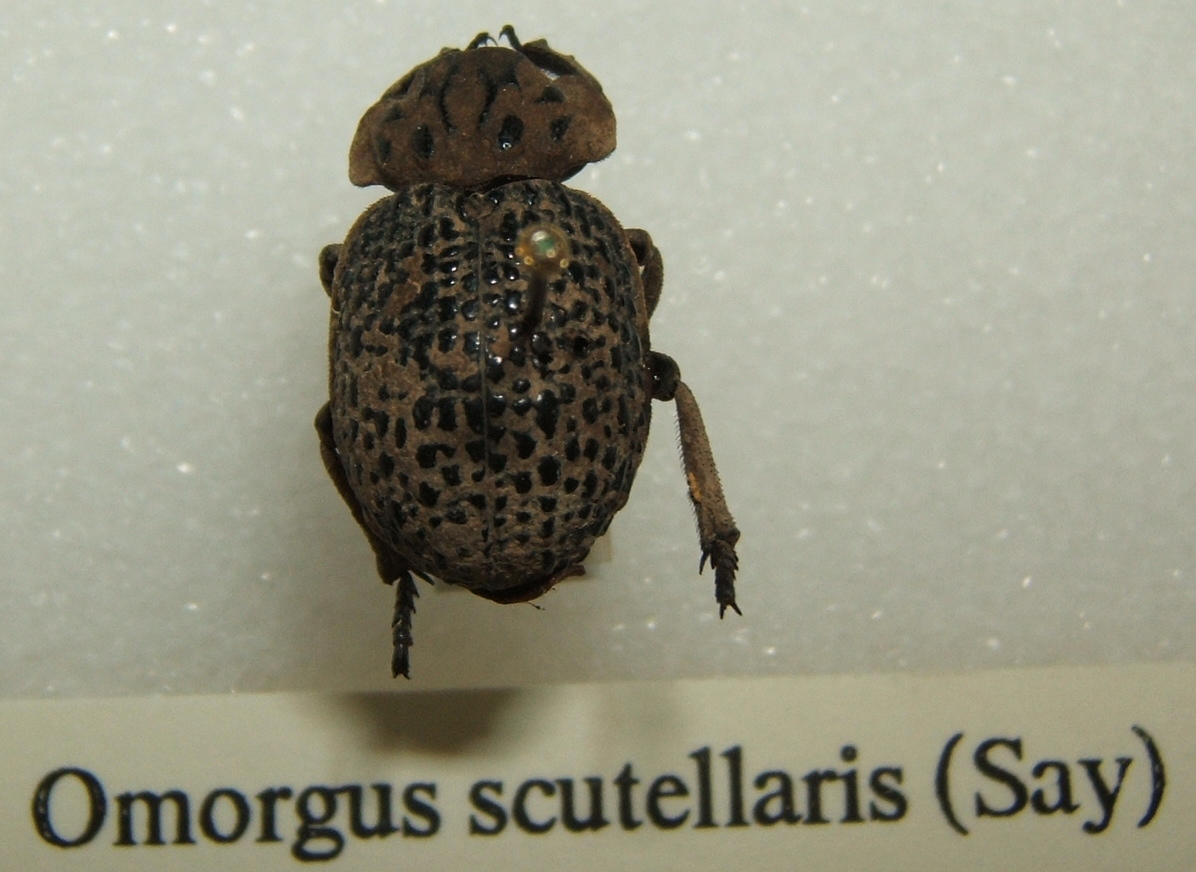 Omorgus scutellaris adult taken by Shawn Hanrahan at the Texas A&M University Insect Collection in College Station, Texas.